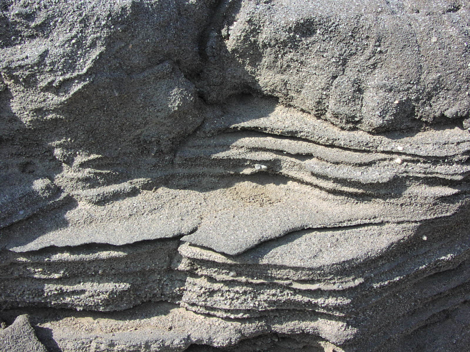 Oil Strata from 1910 Lakeview Gusher, almost 100 years later; photo area is about 10 inches across